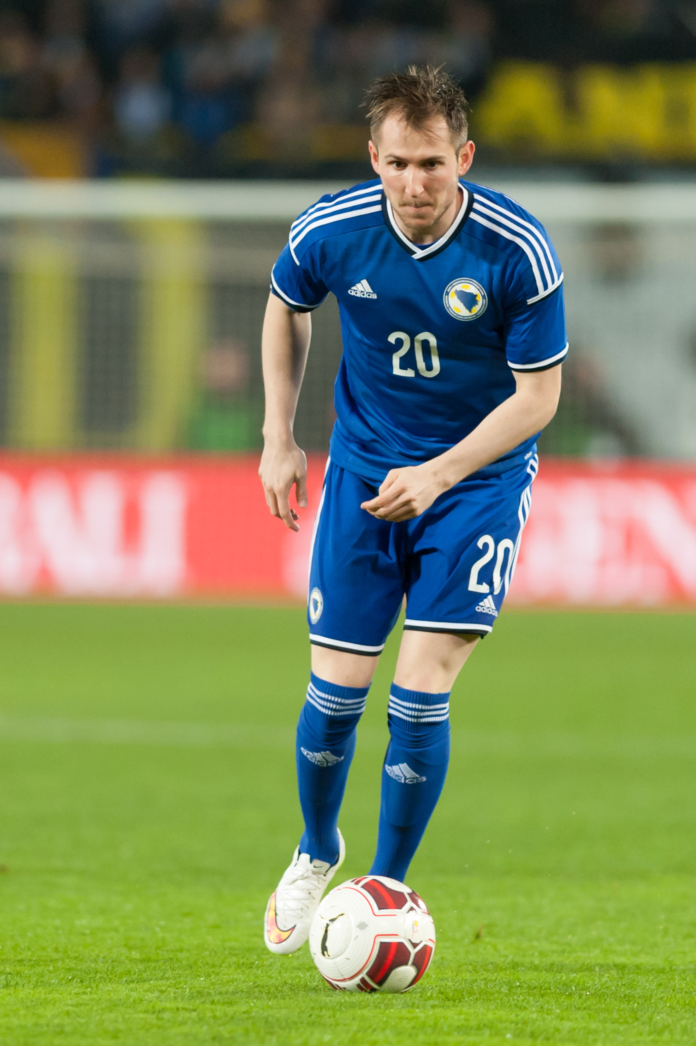 International friendly Austria vs. Bosnia and Herzegovina, 2015-03-31, Vienna